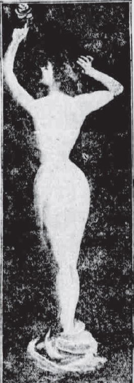 Reata Winfield performing in the title role of Nellie, the Beautiful Cloak Model, circa 1907